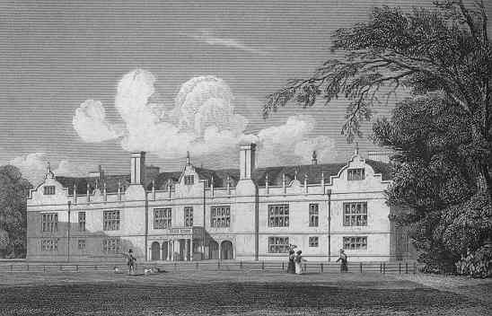 Apethorpe Palace Northamptonshire. JONES' VIEW OF THE SEATS... DATE - January 1st 1829